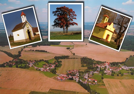 foto